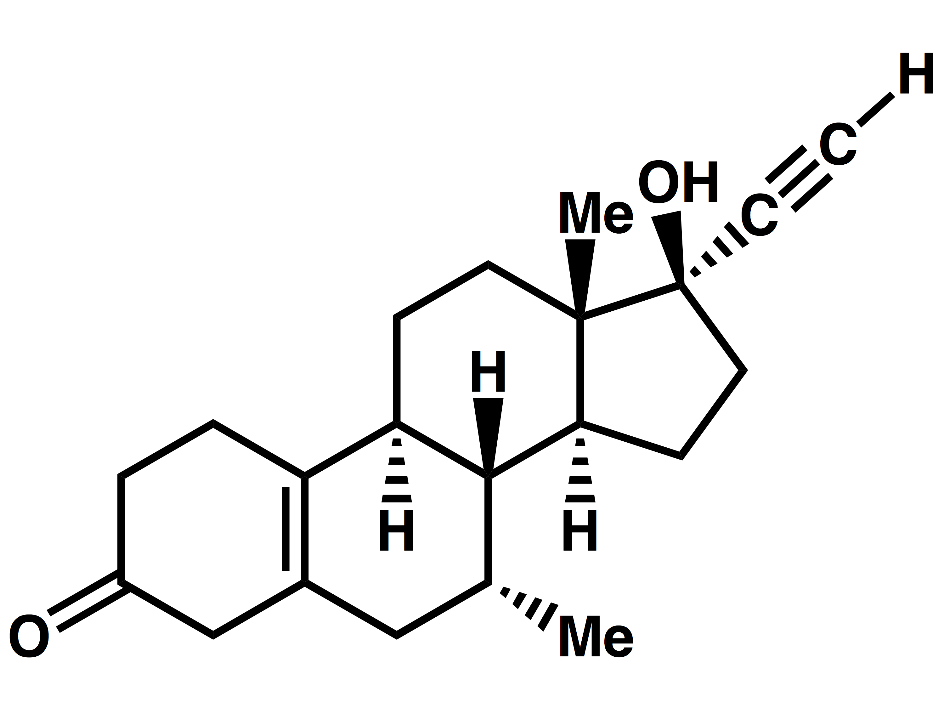 Molecular structure of tibolone